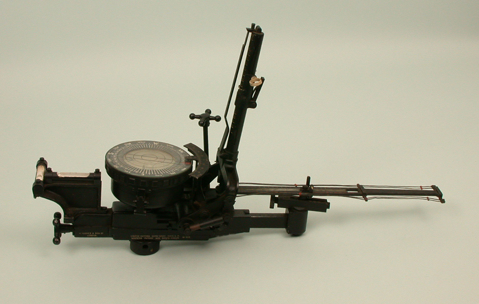 The Course Setting Bomb Sight Mk IIH was a post-WWI model produced by Elliot Brothers around 1920. It includes several updates compared to the original Mk. I model. In particular, the bombsight now includes two wires on either side of the drift bar, seen extending to the right, which improves the bomb aimer's ability to judge any "drift". In this case the wires have considerable slack in them. Another change is to move the spirit levels used to level the bombsight to much more prominent positions, as levelling was a major problem throughout the CBSS's history. In this image, the wind has been set to be blowing from just to the right of the tail of the aircraft.